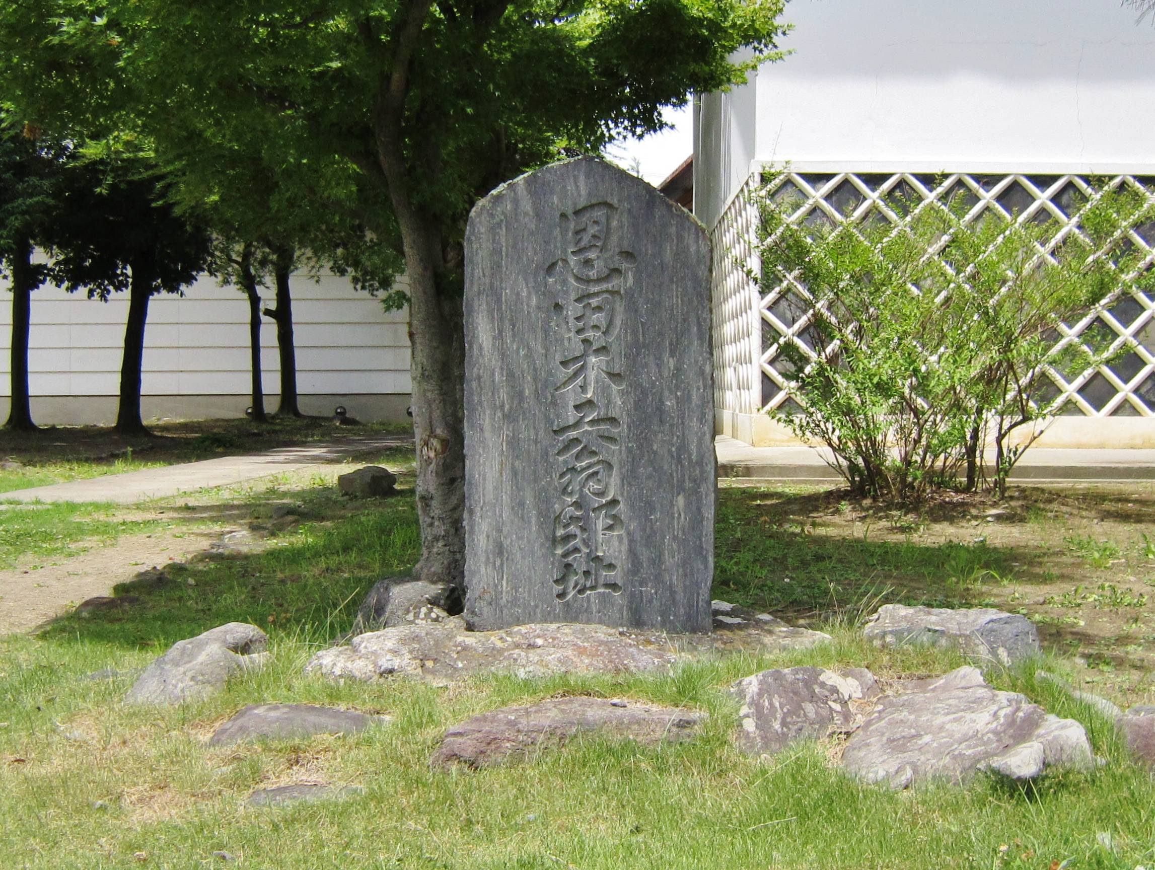 Sanada Park Onda Tamichika Residence monument.